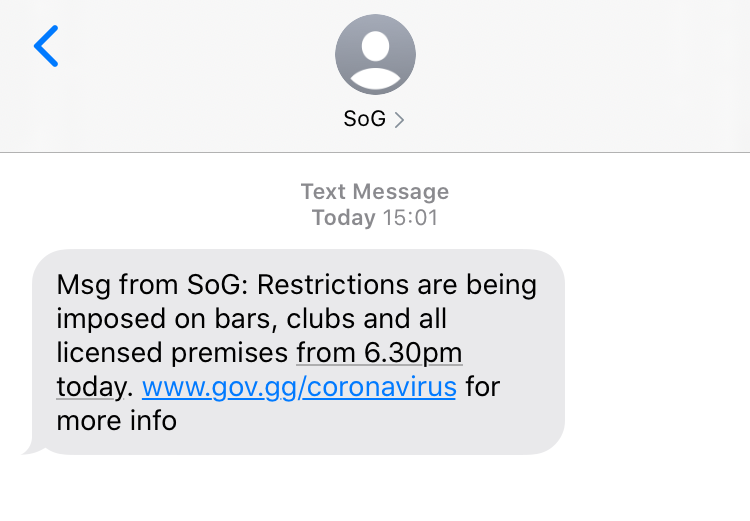 A screenshot of a mass SMS message sent from the States of Guernsey to numbers within the Bailiwick of Guernsey regarding changing regulations in response to the developing coronavirus pandemic